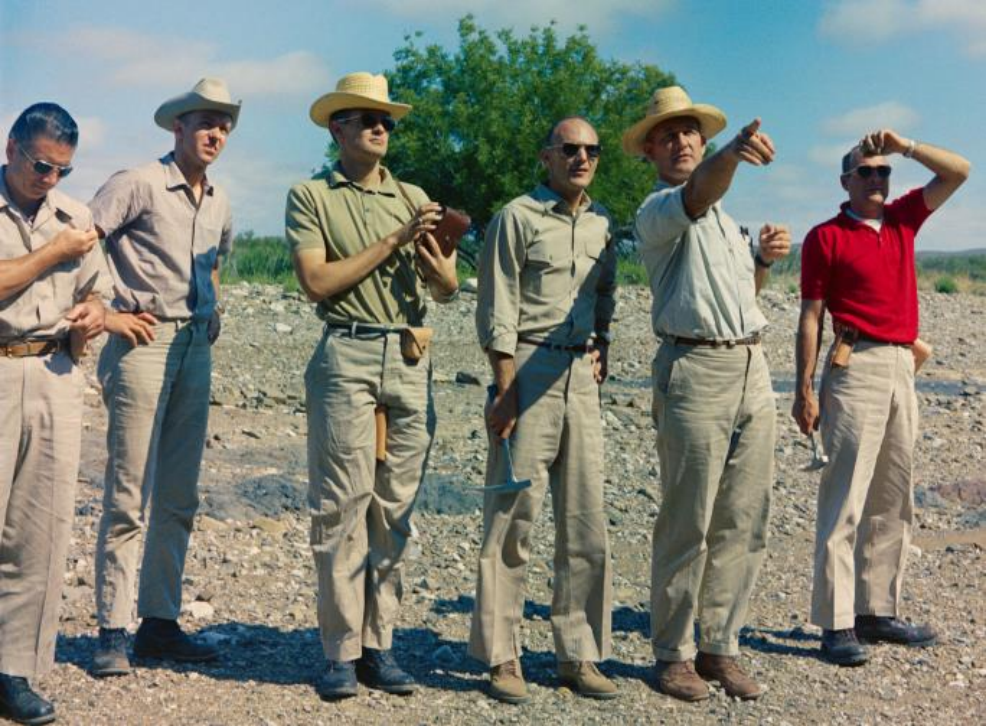 Muehlberger training astronauts on a geology field trip to Marathon Basin